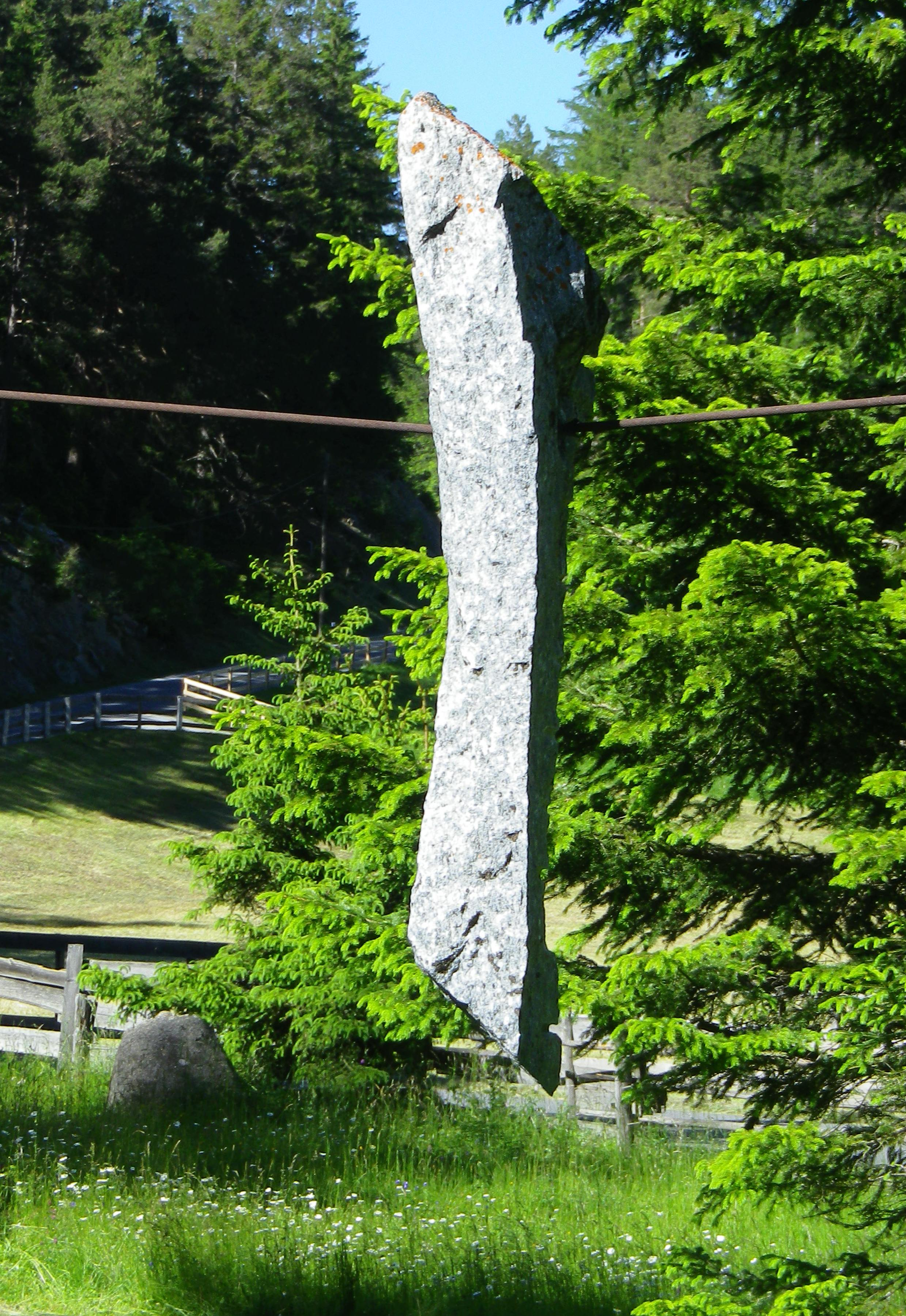 Sound sculpture (h=90 cm) by the artist (sculptor) Kassian Erhart, Skulpturenfeld Fuchsmoos, Piller bei Fließ